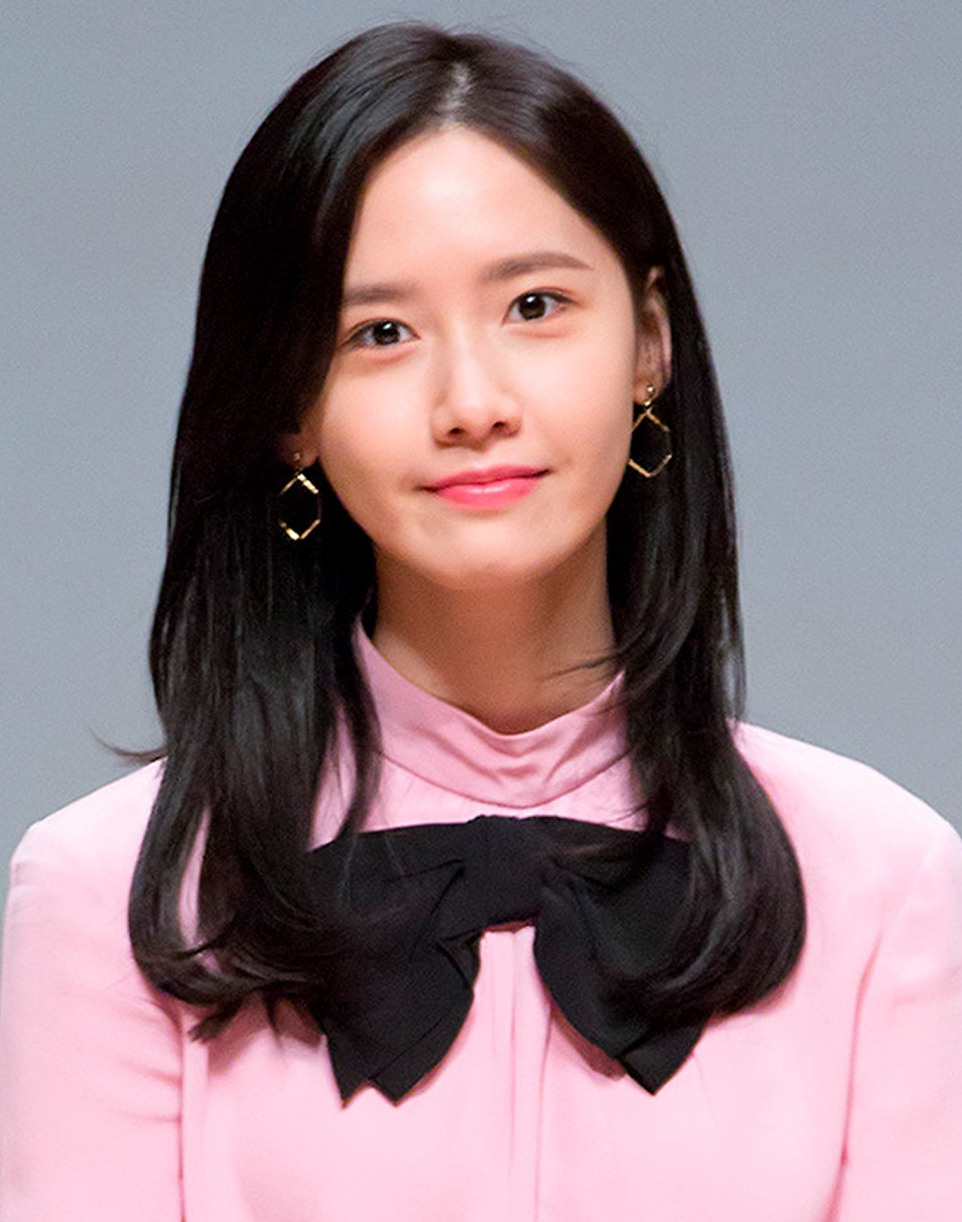 YoonA during "Cooperation" showcase in January 16, 2017.